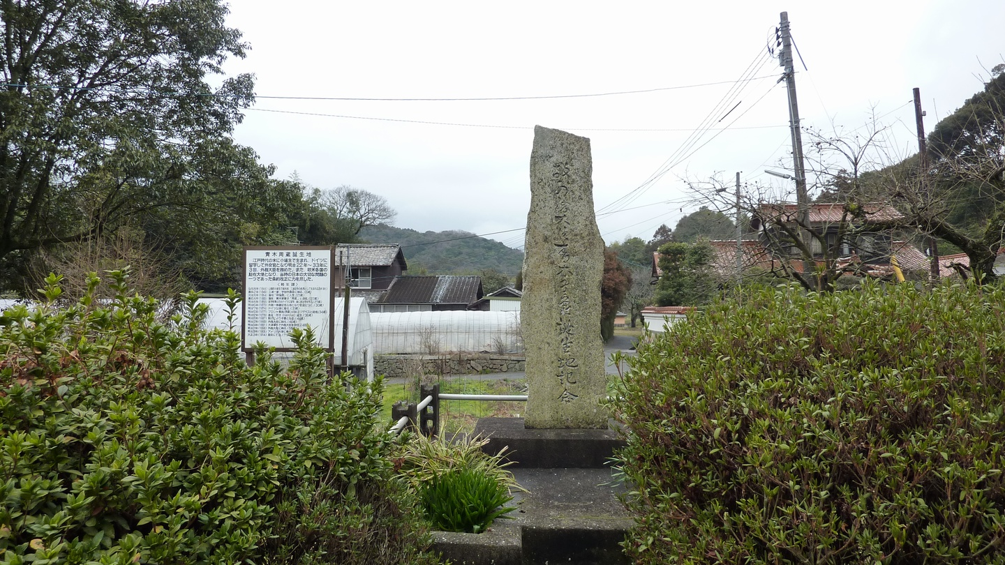 The Aoki Shūzō's Birth Place is in Ohabu, Habu, Sanyo-Onoda City, Yamaguchi Prefecture, Japan.